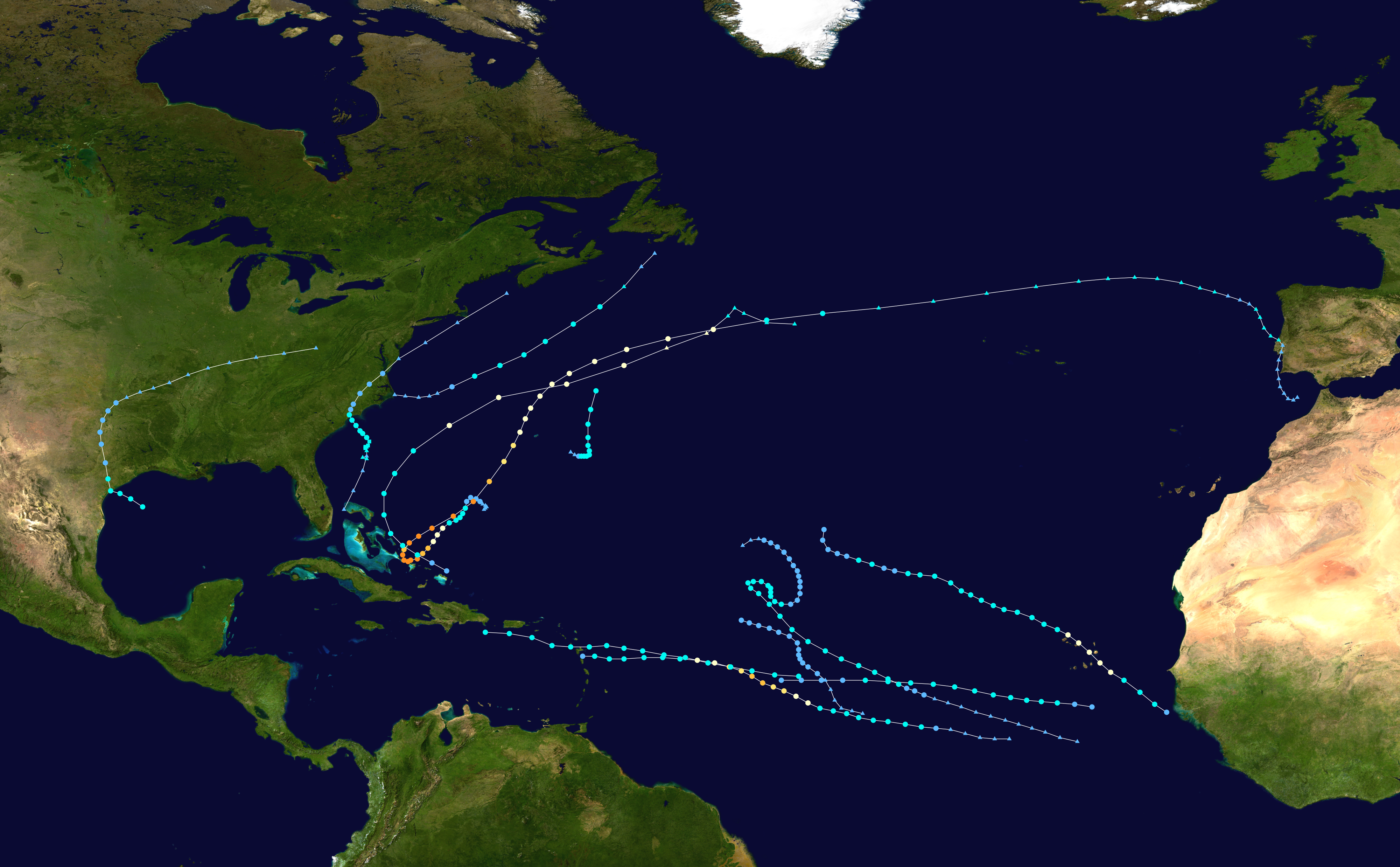 This map shows the tracks of all tropical cyclones in the 2015 Atlantic hurricane season. The points show the location of each storm at 6-hour intervals. The colour represents the storm's maximum sustained wind speeds as classified in the Saffir-Simpson Hurricane Scale (see below), and the shape of the data points represent the type of the storm. Saffir–Simpson scale Tropical depression≤38 mph≤62 km/h Category 3111–129 mph178–208 km/h Tropical storm39–73 mph63–118 km/h Category 4130–156 mph209–251 km/h Category 174–95 mph119–153 km/h Category 5≥157 mph≥252 km/h Category 296–110 mph154–177 km/h Unknown Storm type Tropical cyclone Subtropical cyclone Extratropical cyclone / Remnant low / Tropical disturbance / Monsoon depression